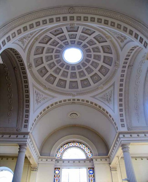 St Mary at Hill, St Mary at Hill, Cheapside, London EC3 - Ceiling, near to City of London, Great Britain.